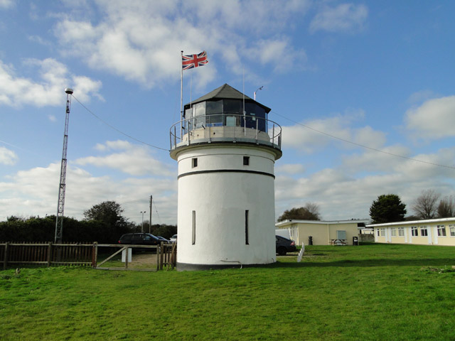 Old lighthouse at Crazy Mary's Hole